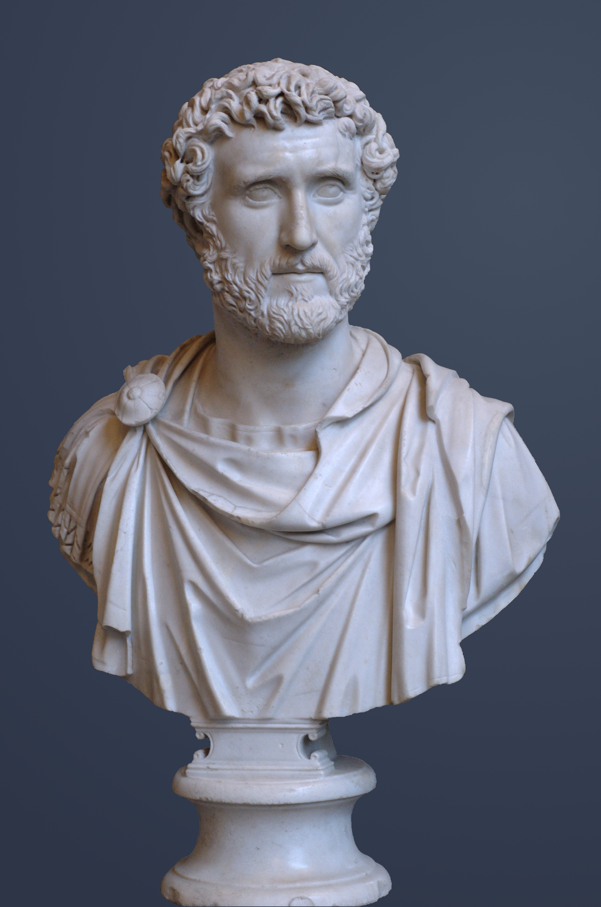 Bust of Antoninus Pius (reign 138–161 CE), ca. 150.